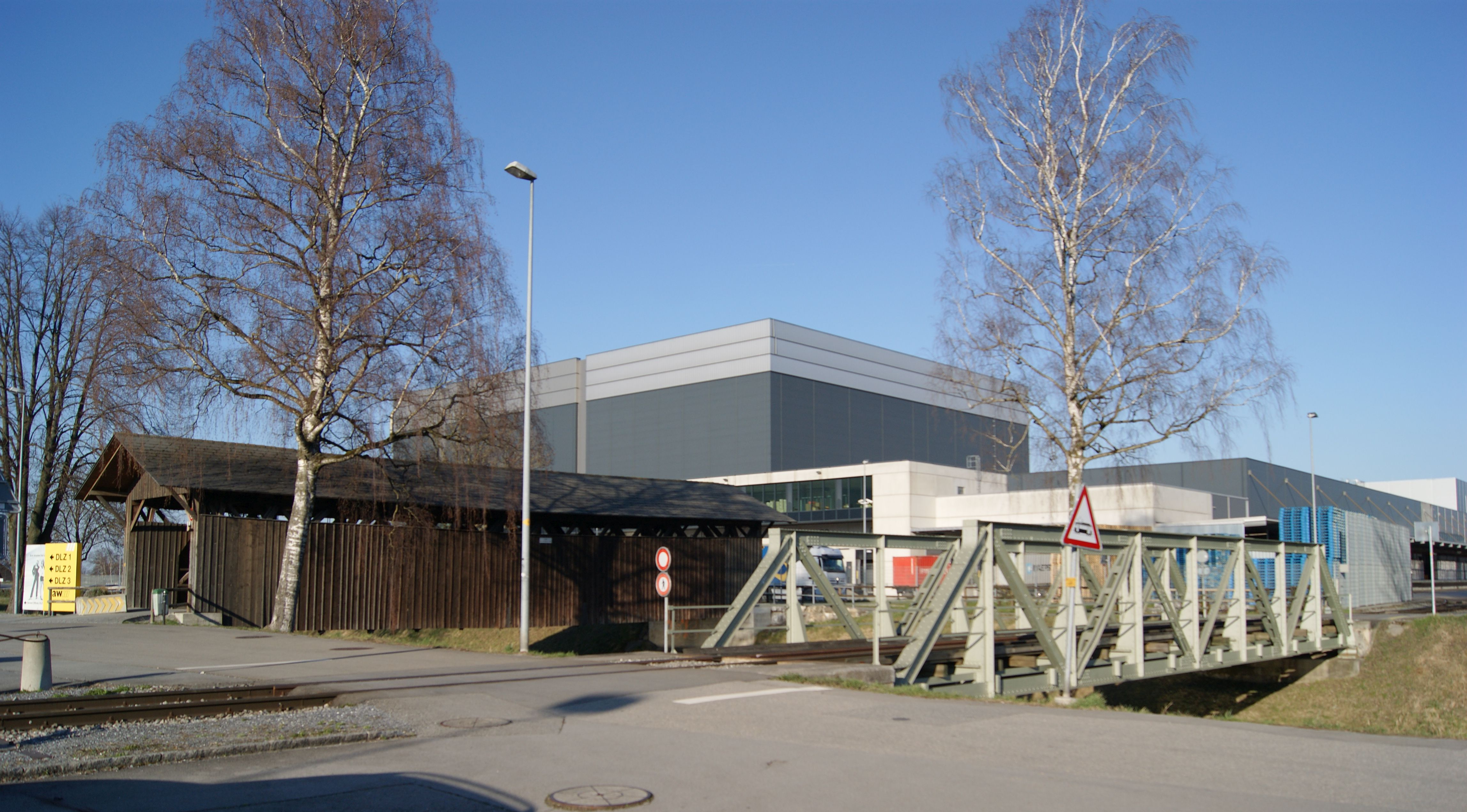 Railway bridge and Nöllenbrücke (bridge) in Widnau, St. Gallen, Switzerland. The Nöllenbridge was a Part of the former old Rhine bridge and built here in 1915 over the Rheintalbinnenkanal (river). Both bridges lead over the Rheintalbinnenkanal (river).